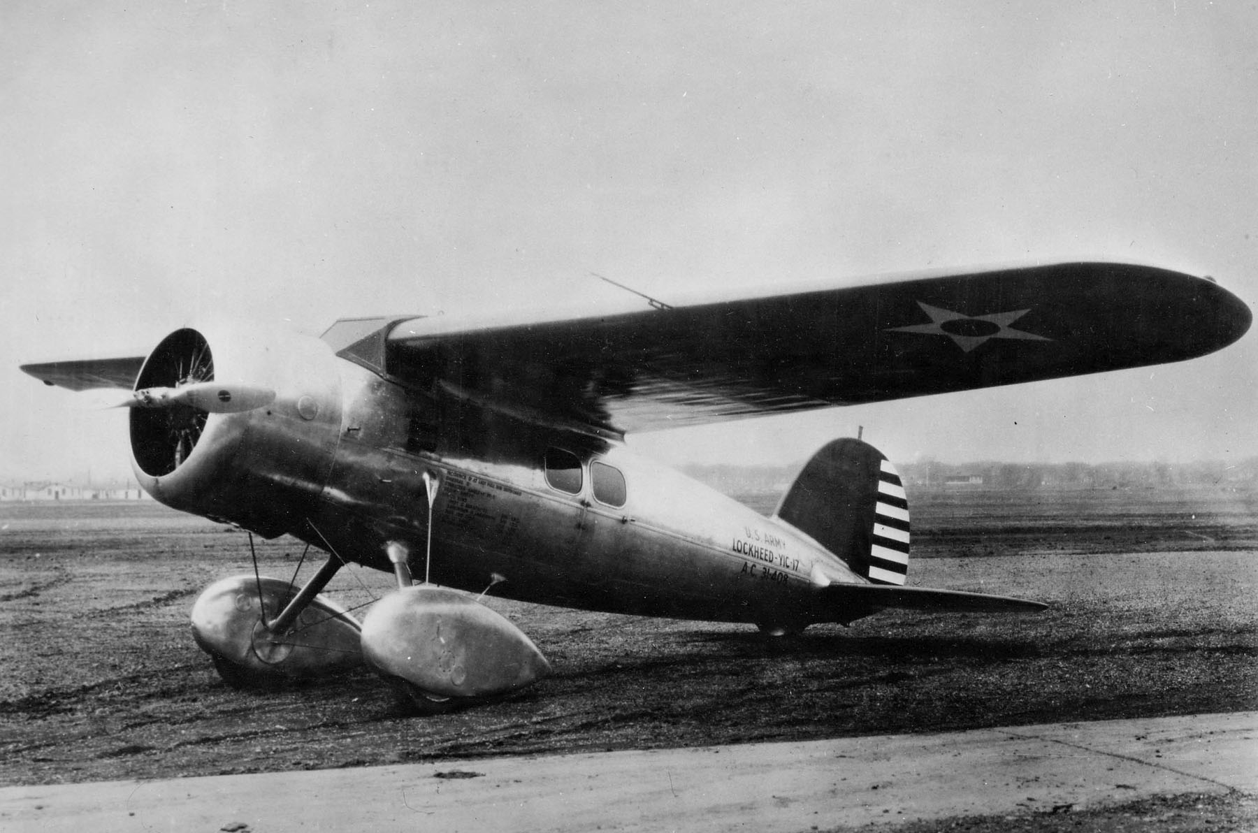 Detroit Lockheed Y1C-17 ("Vega"), s/n/ 31-408